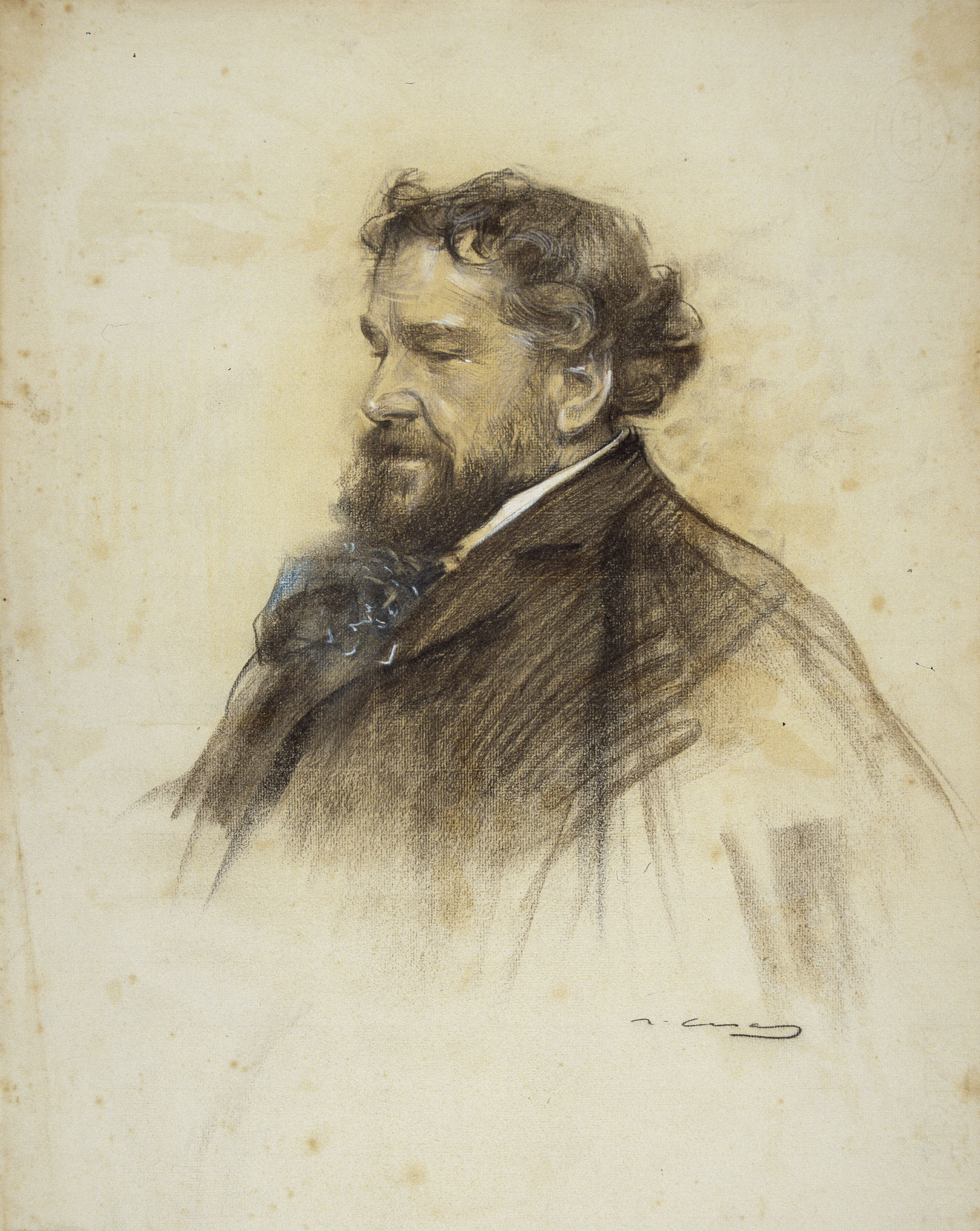 Portrait by Ramon Casas conserved at MNAC in Barcelona.